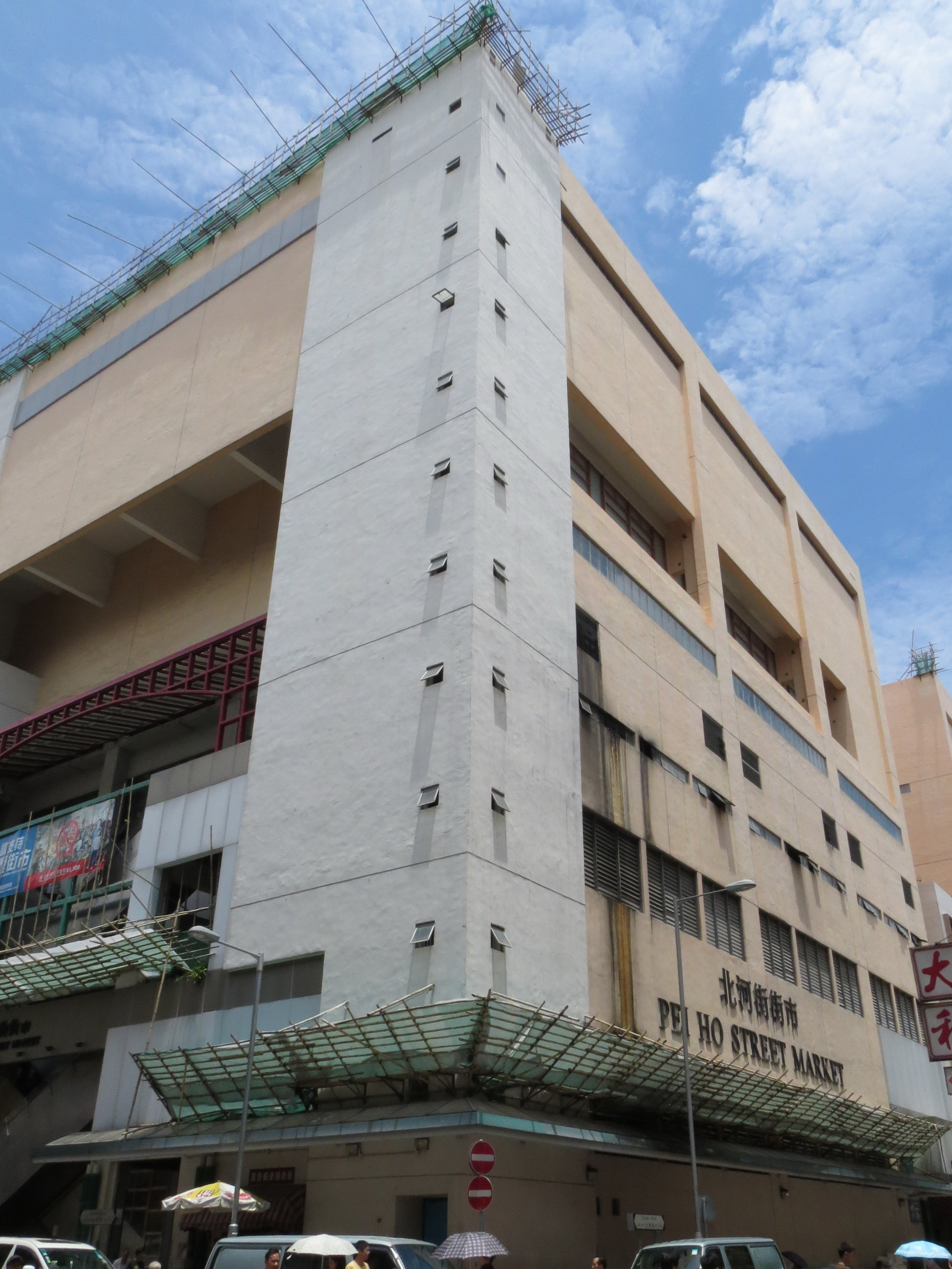 Pei Ho Street Municipal Services Building, Sham Shui Po, Kowloon, Hong Kong.